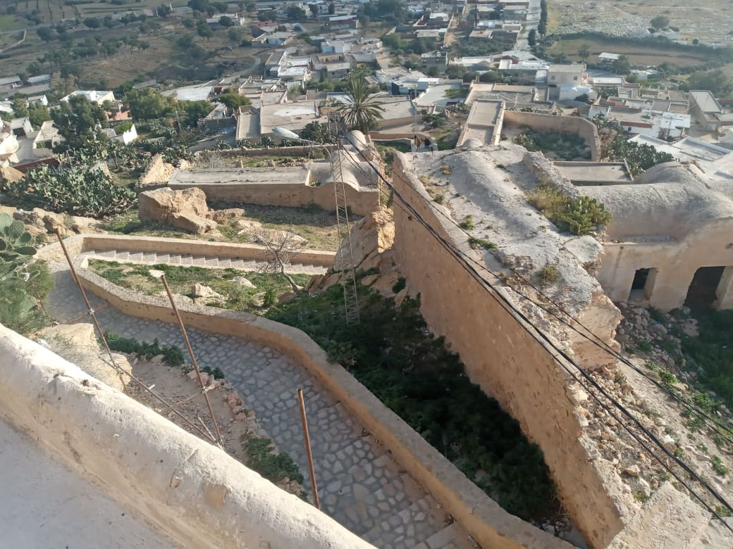 This is an image with the theme "Africa on the Move or Transport" from: Tunisia